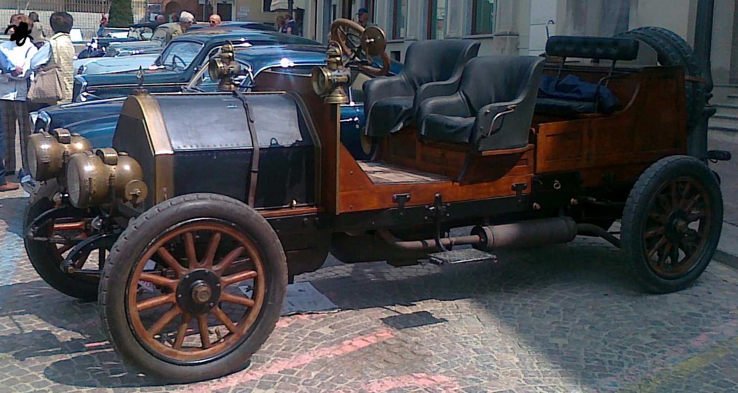 SCAT (Società Ceirano Automobili Torino) mod. 22-32, year 1910